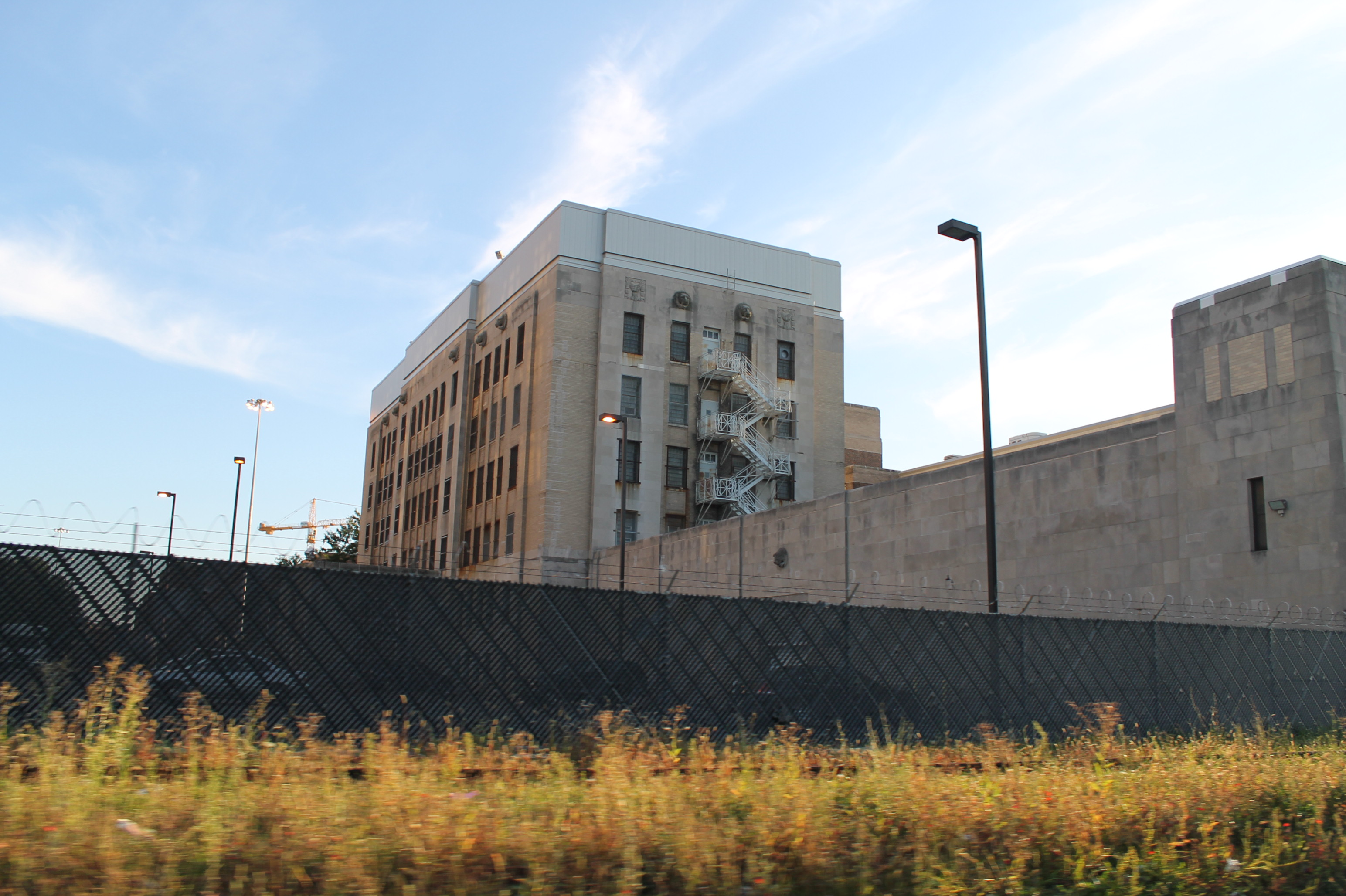 Theresa and I drove by here from Little Village back to Pilsen.